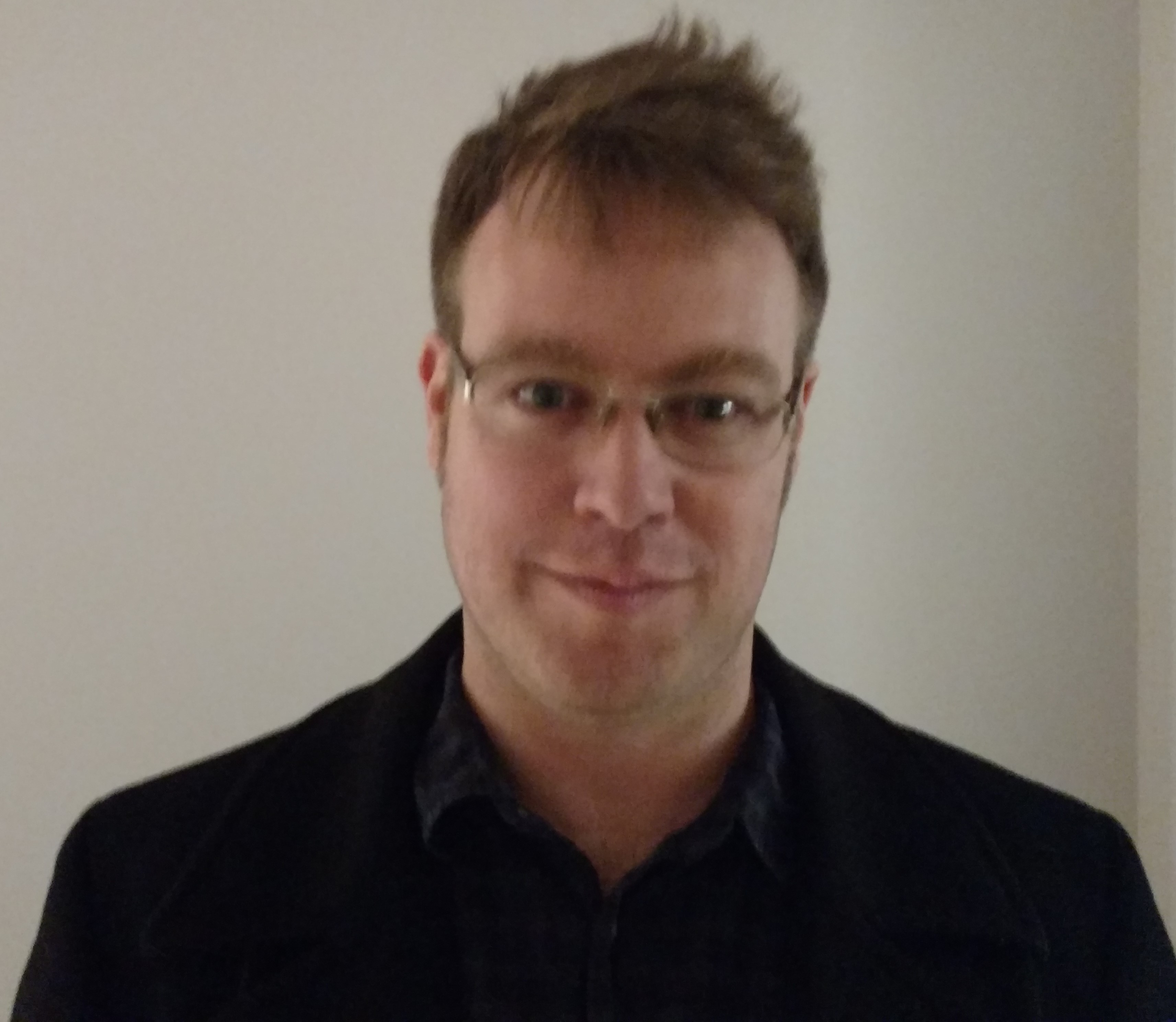 Adam Kennedy, perl programmer, San Francisco, taken oct 8, 2016